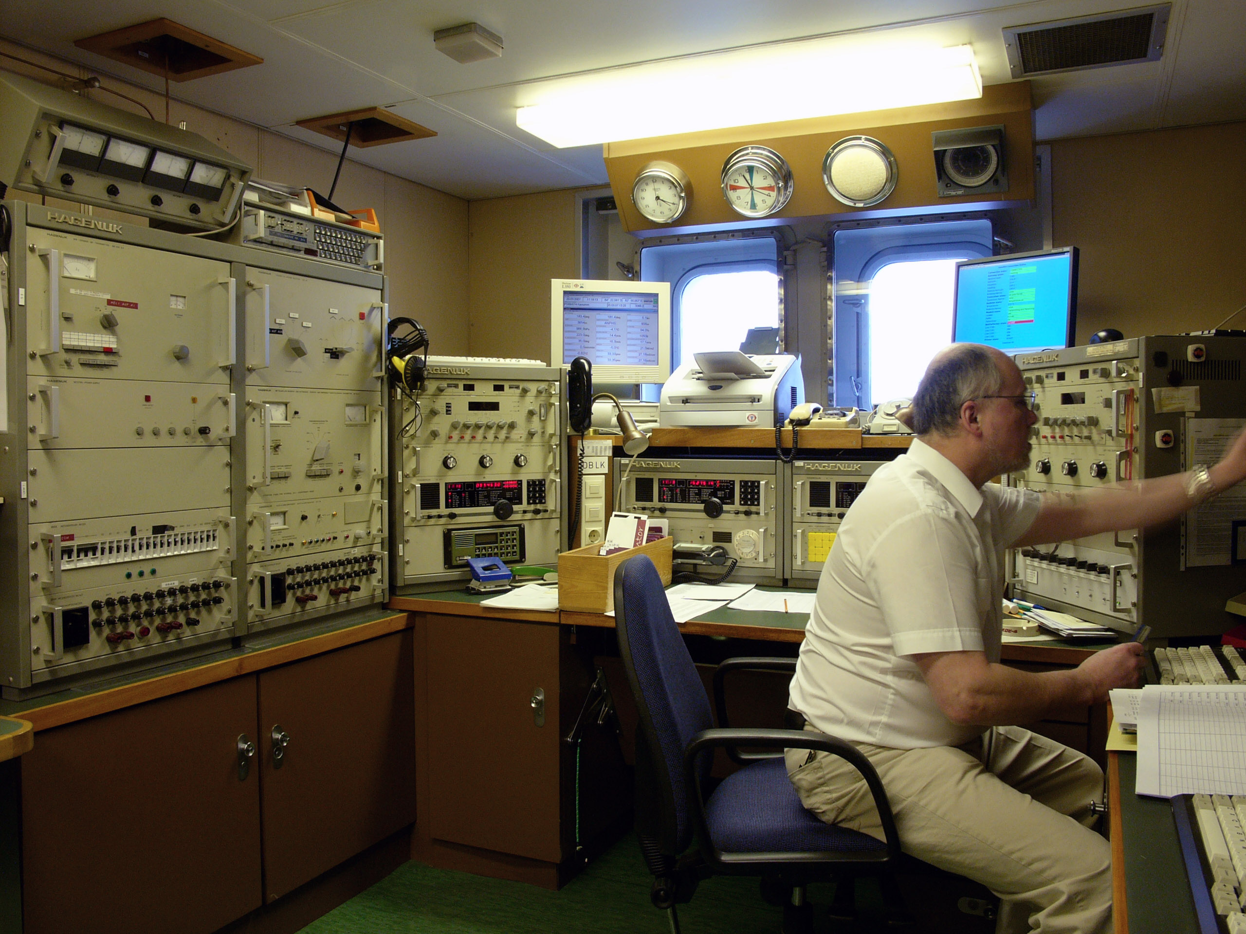 Photo from the German research vessel POLARSTERN, radio room